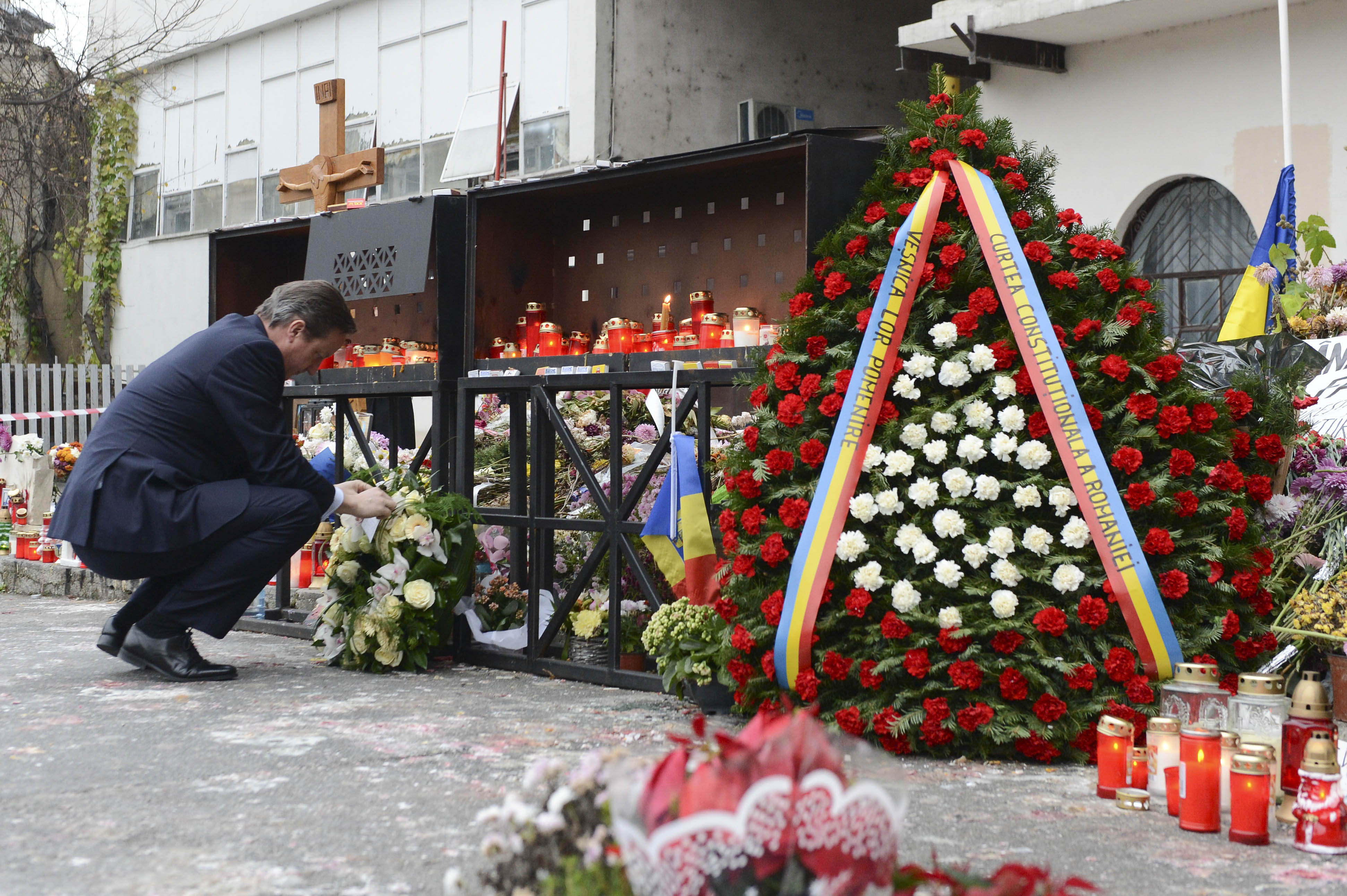 David Cameron visit to Club Colectiv